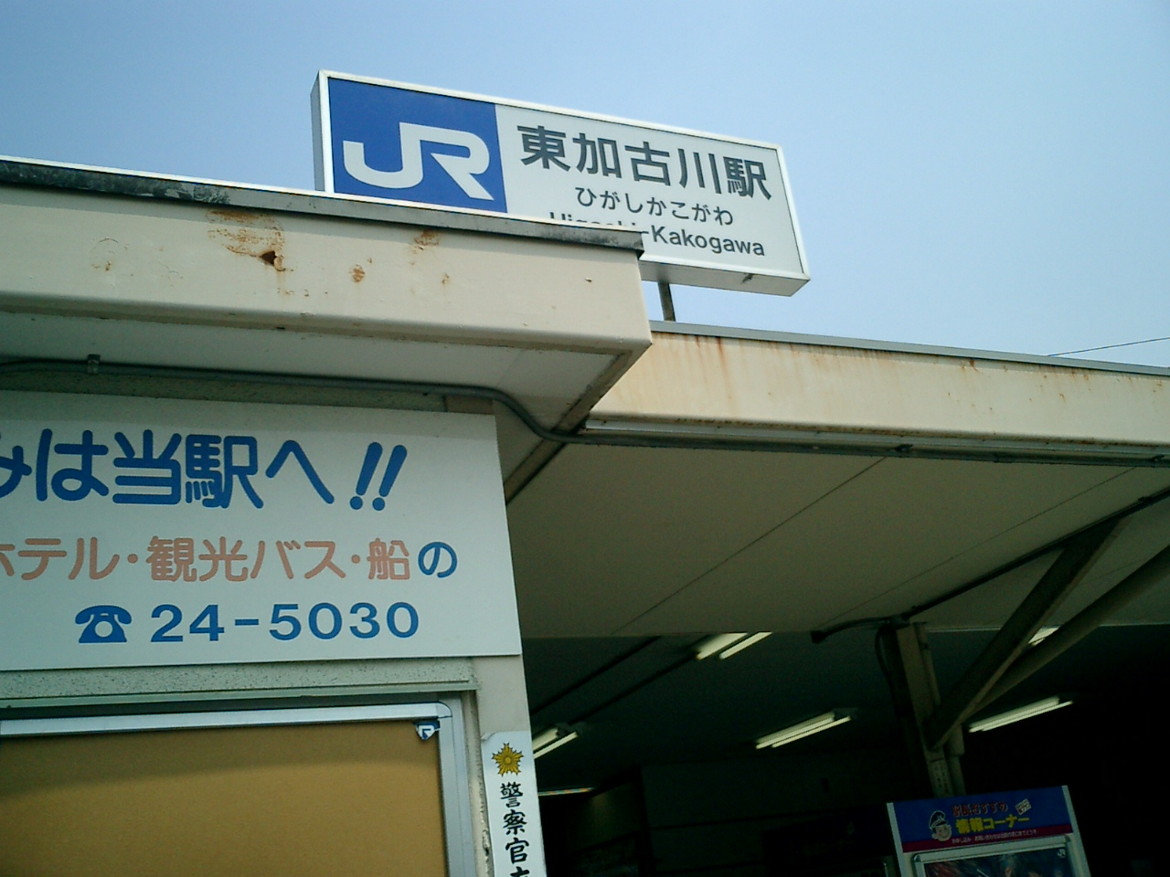 Higashi-Kakogawa Station